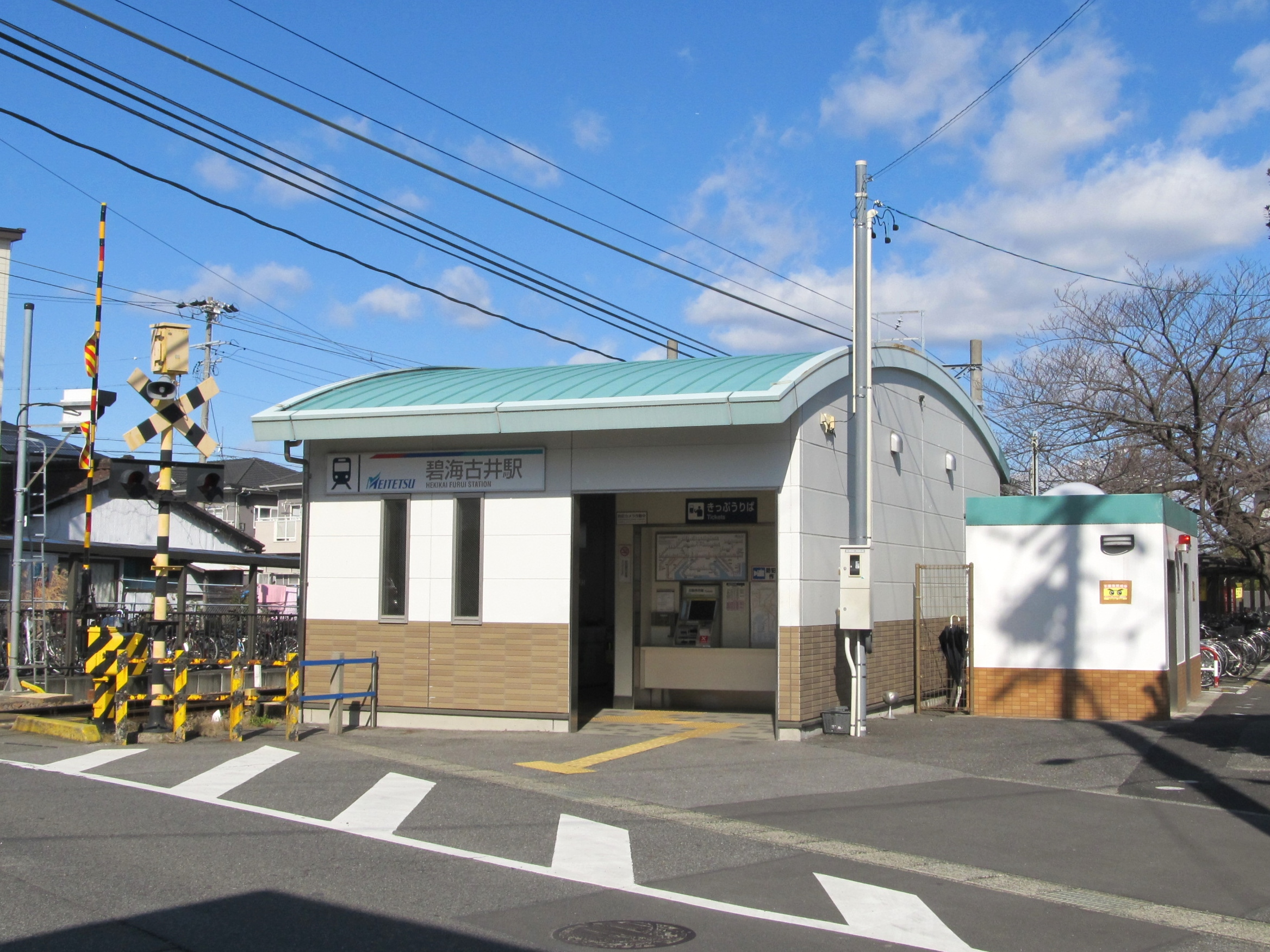 Nagoya Railroad Nishio Line Hekikai Furui Station Building